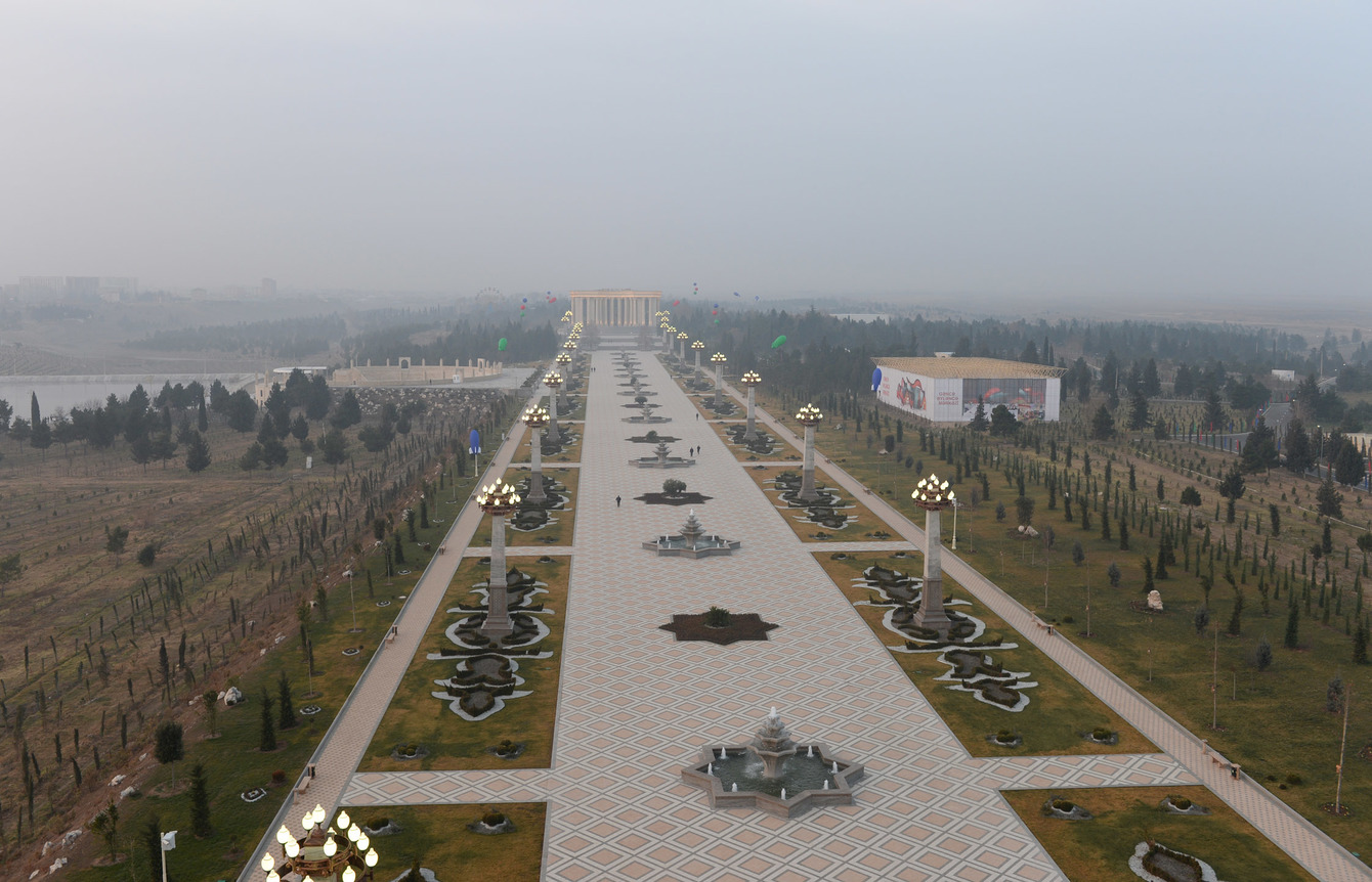 Ilham Aliyev attended the opening of the Heydar Aliyev Park Complex and the Heydar Aliyev Center in Ganja